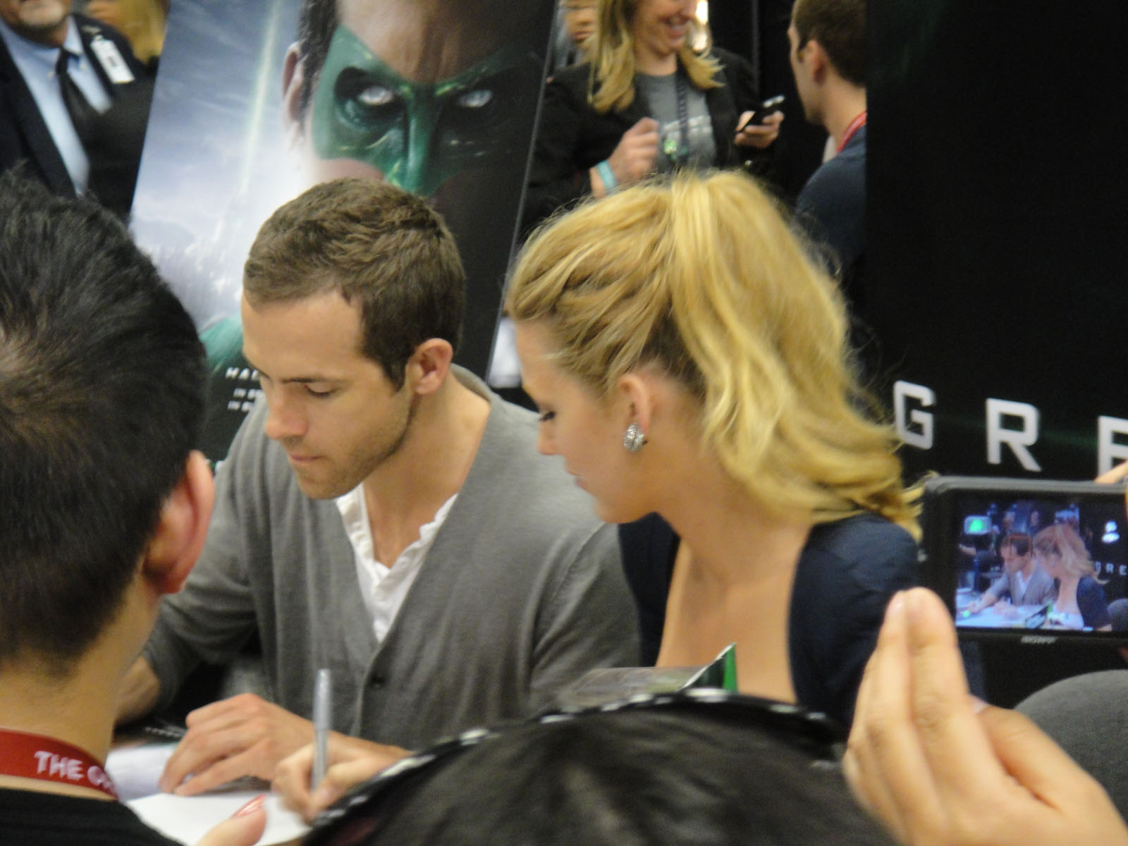 WonderCon 2011 - Ryan Reynolds and Blake Lively from the Green Lantern movie